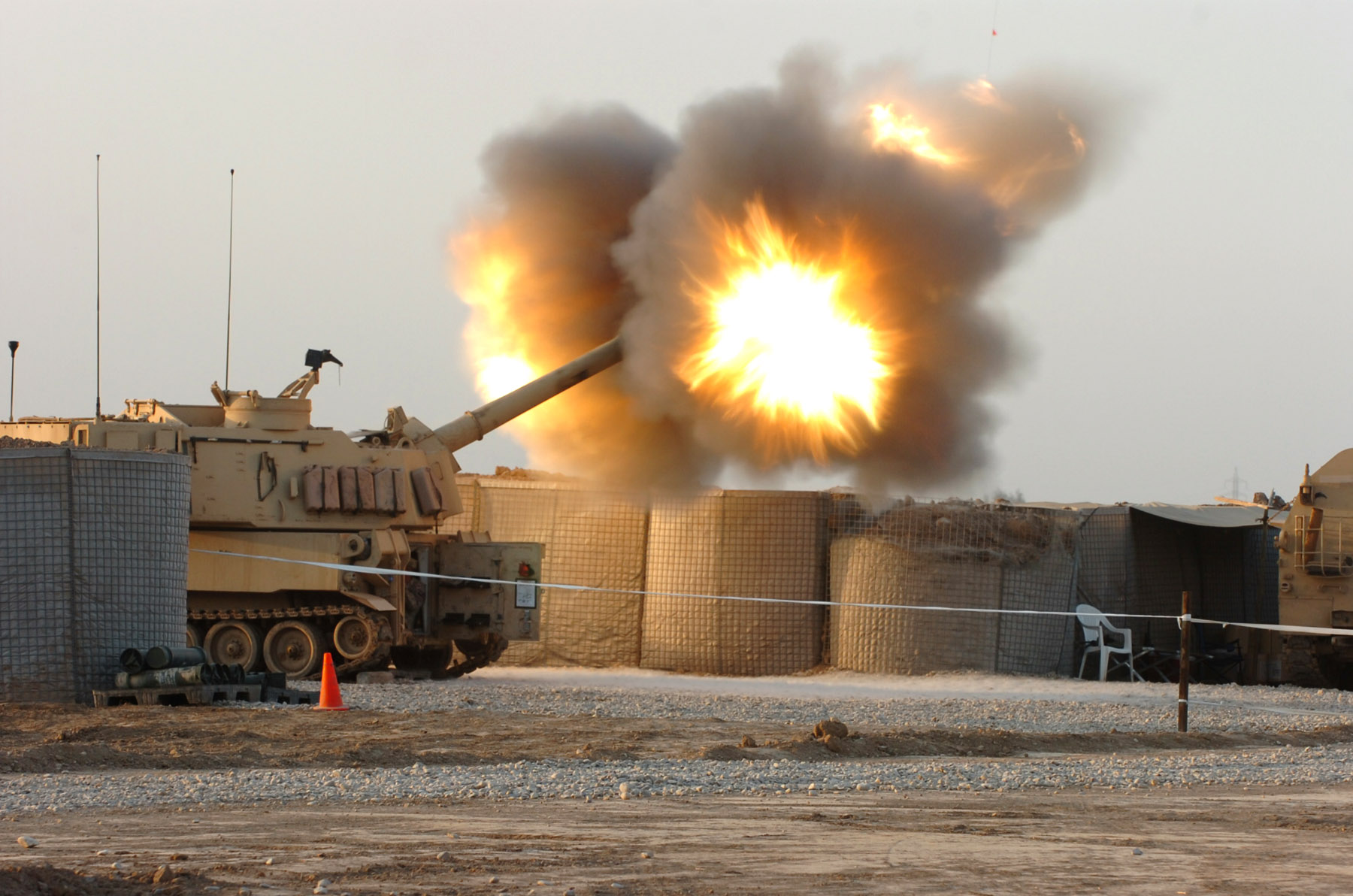 Soldiers from Battery A, 1st Battalion, 82nd Field Artillery Regiment fired the howitzers on their M109A6 Paladins during the first-ever firing of the Modular Artillery Charge System in the combat zone by an entire Paladin battery March 13 on Camp Taji, Iraq. The MACS is a newly refined propellant that pushes projectiles out of the barrel of the howitzers . The MACS will be used in conjunction with the soon to be fielded Excalibur precision guided munition that the Batt. A Soldiers are expected to receive within the next few months. U.S. Army photo by Staff Sgt. Jon Cupp, 1st BCT, 1st Cav. Div. Public Affairs